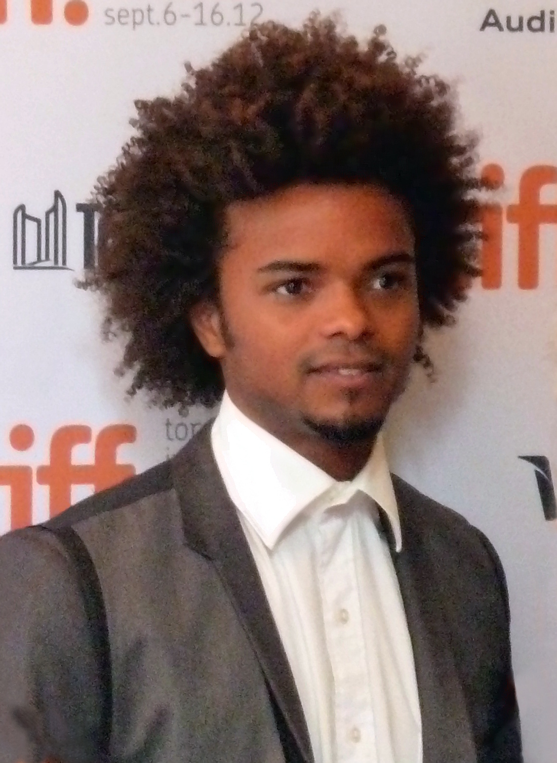 Eka Darville at the premiere of Mr Pip, Toronto Film Festival 2012